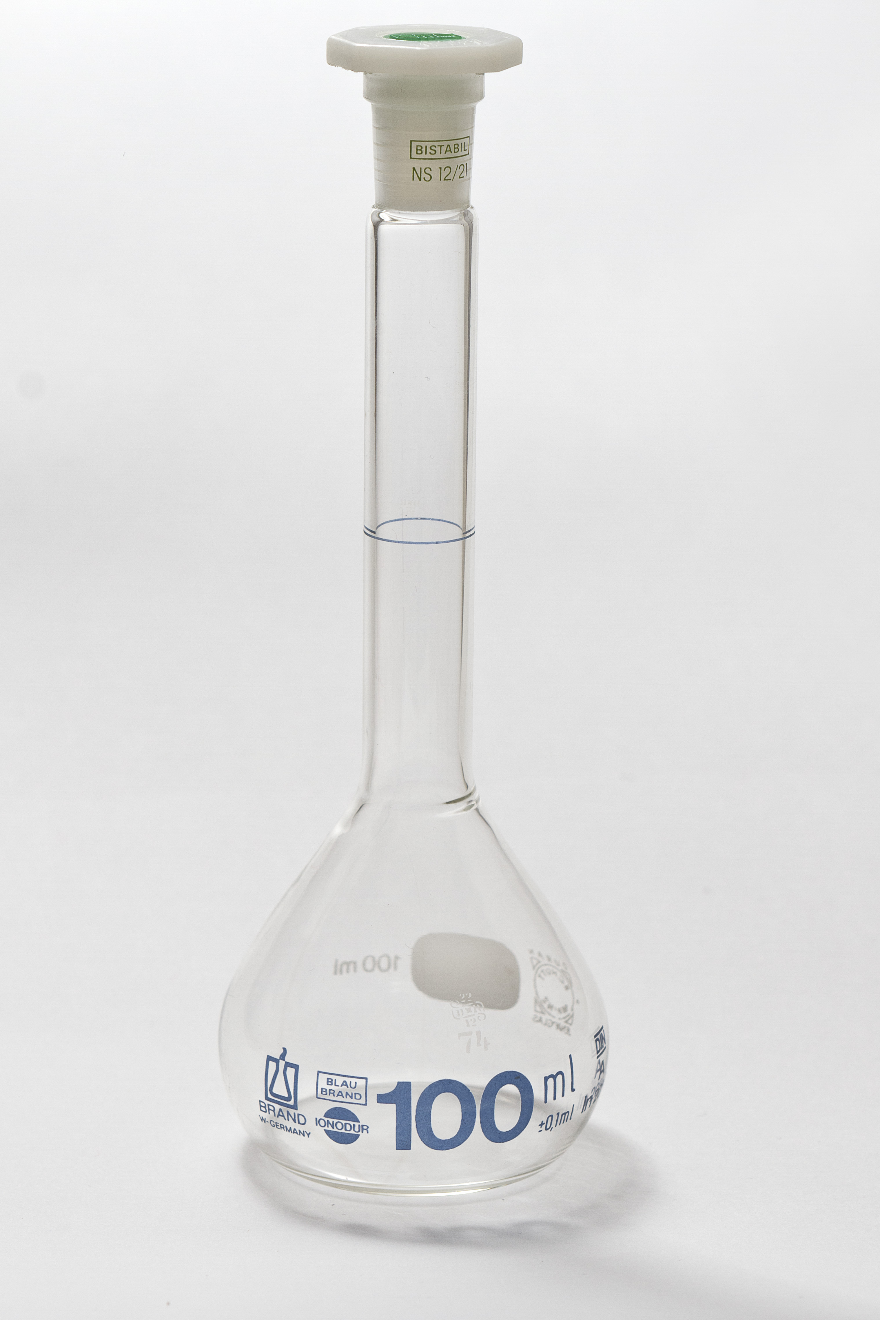 Brand volumetric flask, 100ml, class AS